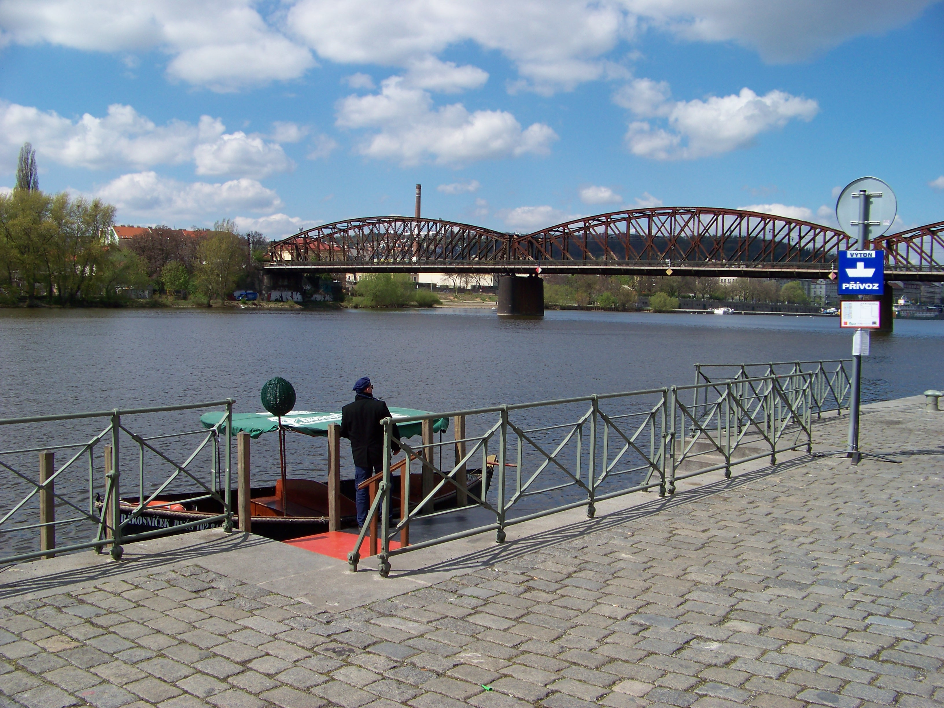 Prague-Vyšehrad, the Czech Republic. Vltava river, Rašínovo nábřeží, ferry P5, Rákosníček boat.